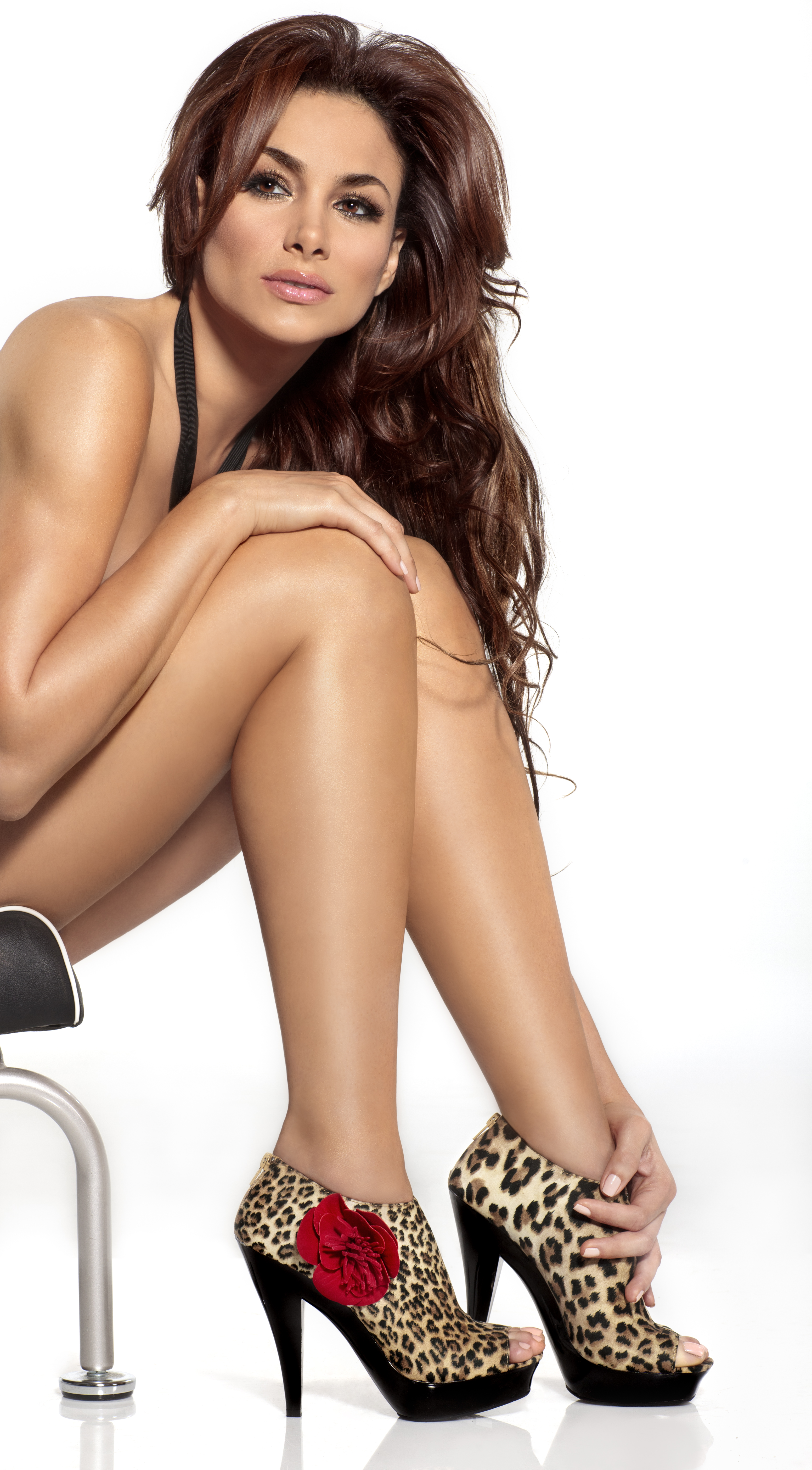 Patricia Michelle De León (born January 2 in Panama City, Panama) is a actress, model and television host.